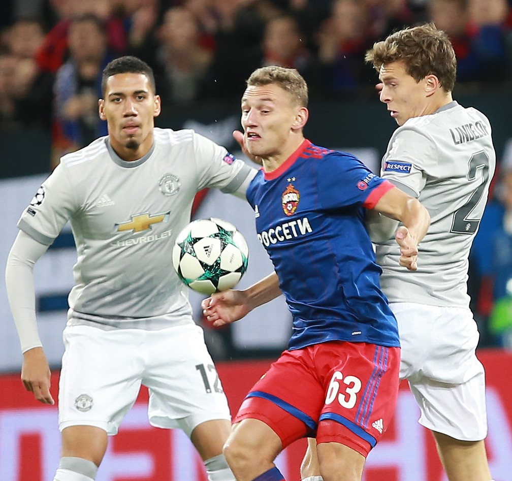 Victor Lindelöf, Chris Smalling, Fyodor Chalov